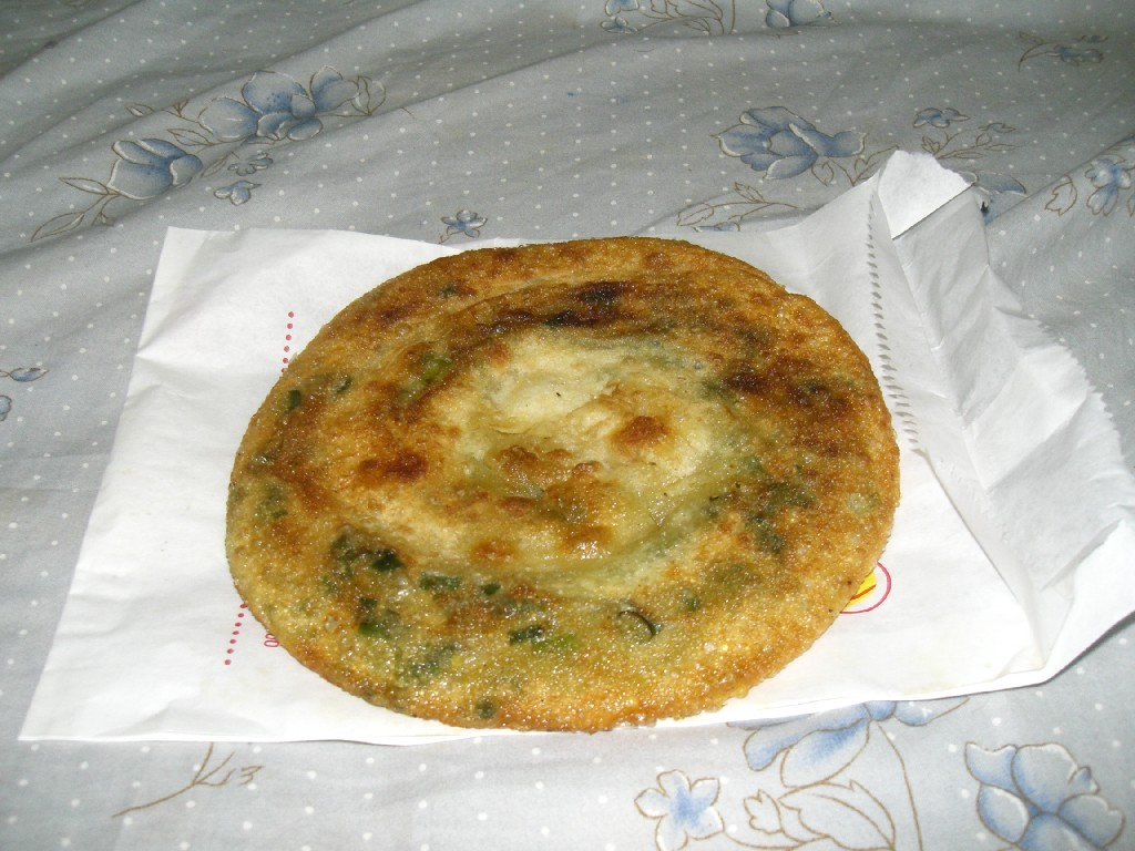 An example of a green onion pancake bought from an alley in Hsinchu, Taiwan.